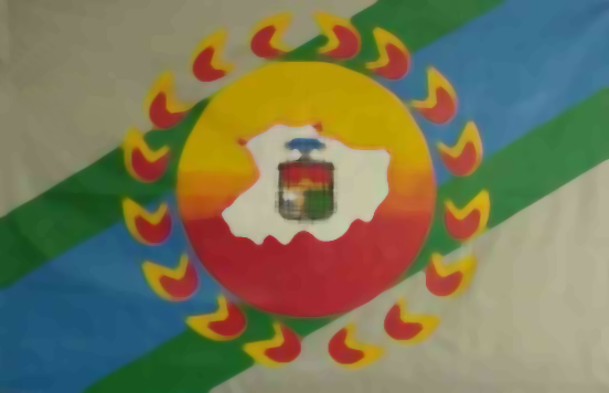 My version of the Carora Flag